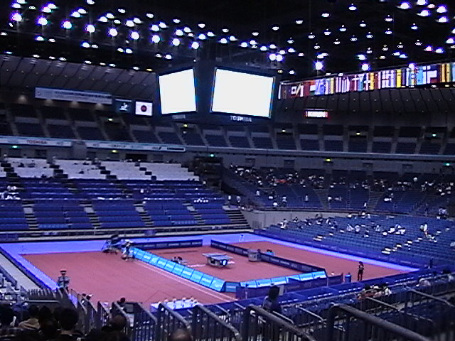 2009 World Table Tennis Championships Center courts.